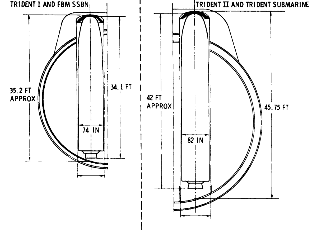 Trident growth potential Backfit SSBN (left) Trident SSBN (right) cross sections